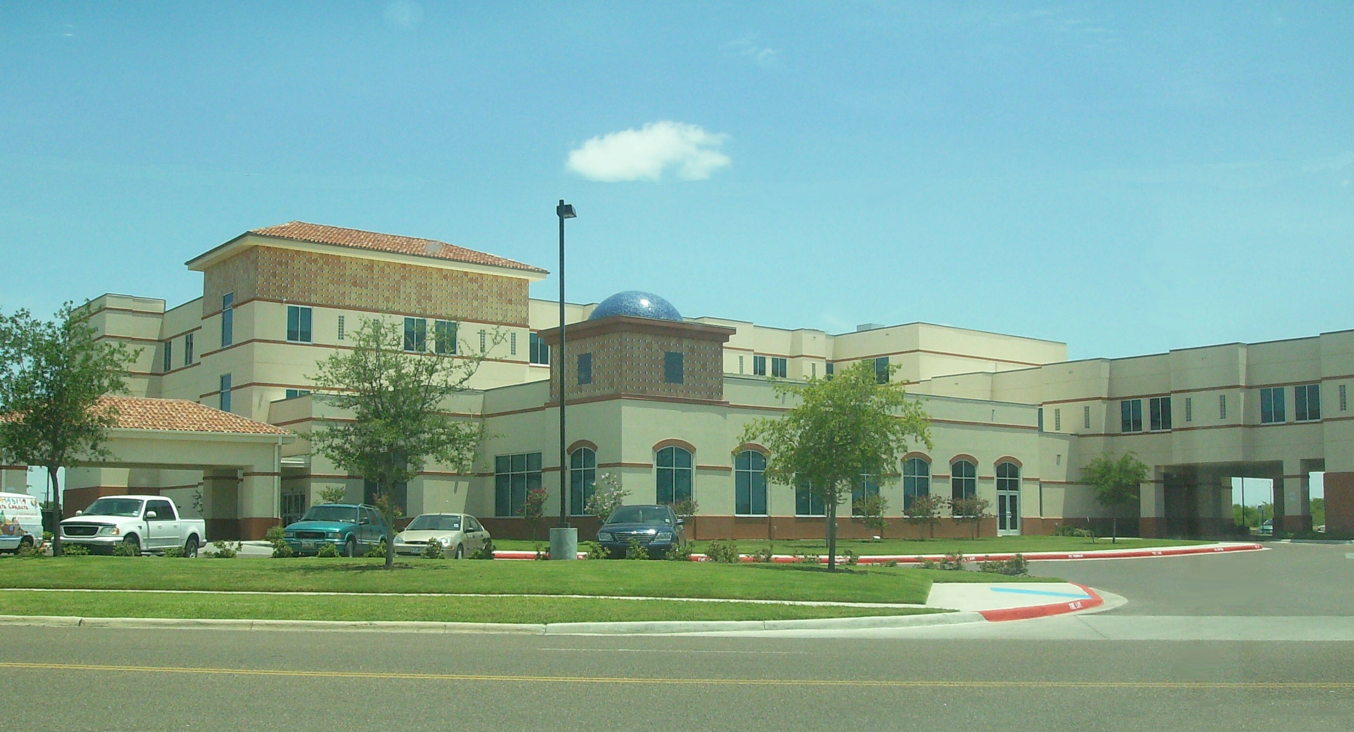 Gateway Community Health Center in Laredo (Spanish Architecture)